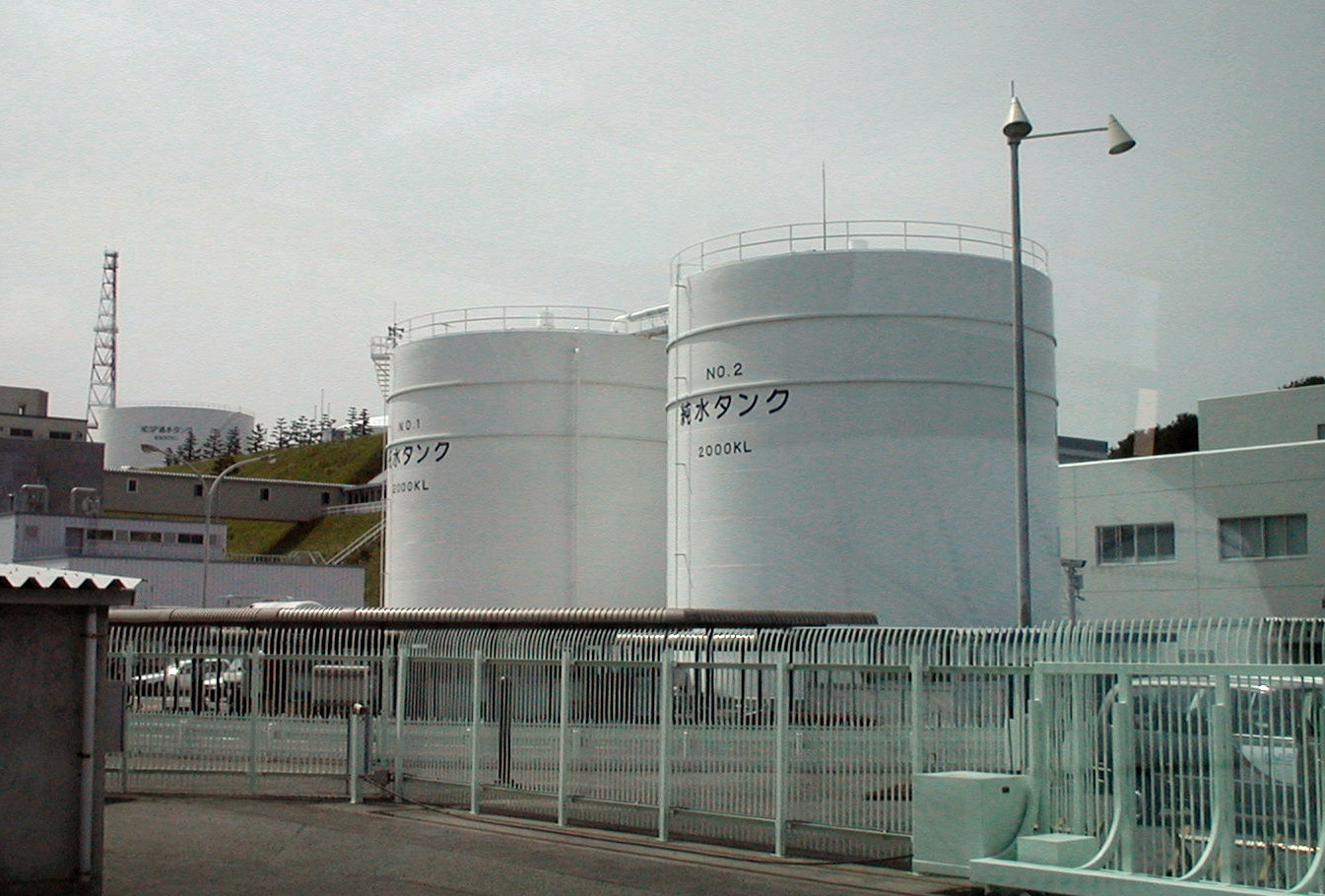 One of the photos taken at the Fukushima I Nuclear Power Plant tour sponsored by the Tokyo Electric Power Company on June 23, 1999.